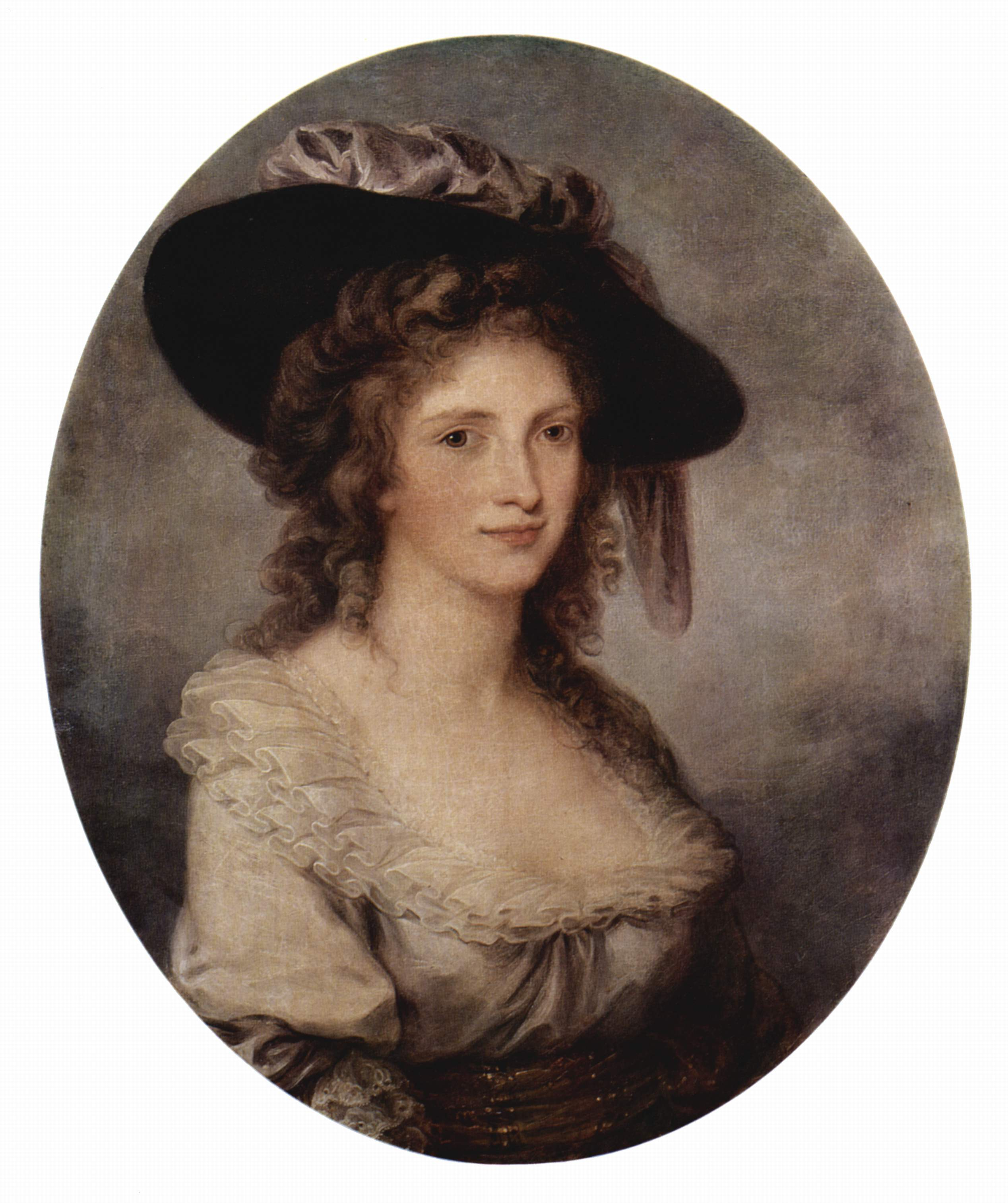 Portrait of a Woman, formerly believed to be a Self-portrait